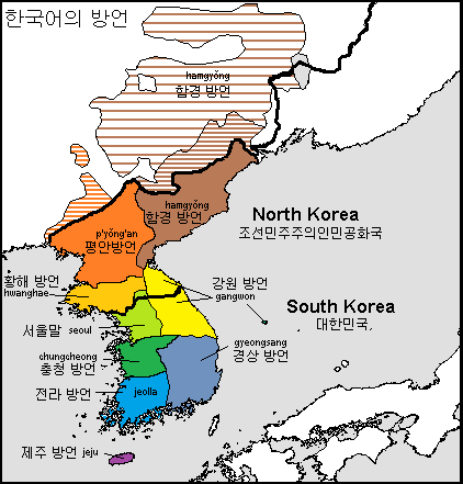 Linguistic map of Korea